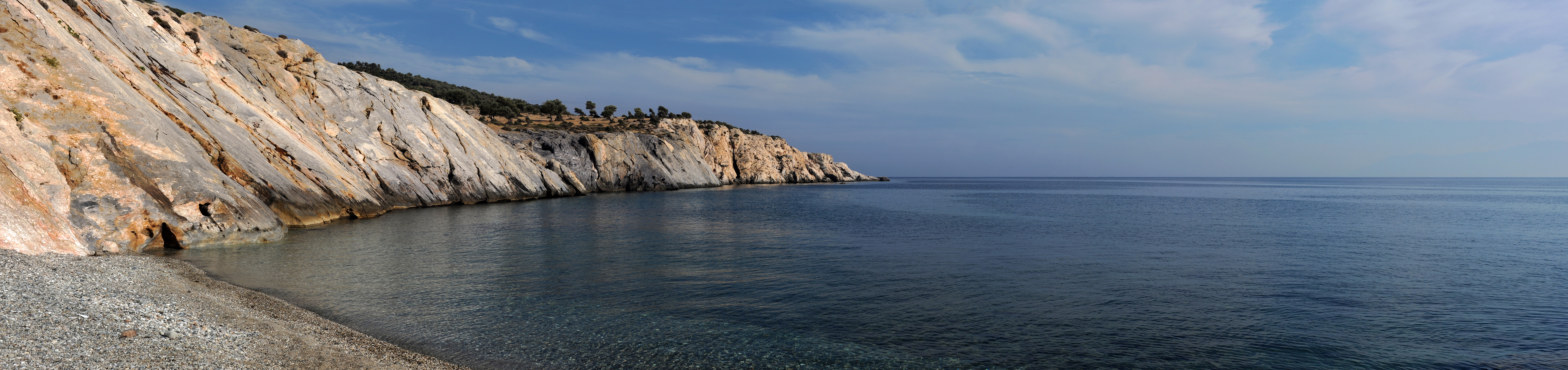 Marmaritsa beach, Maronia, Thrace, Greece.